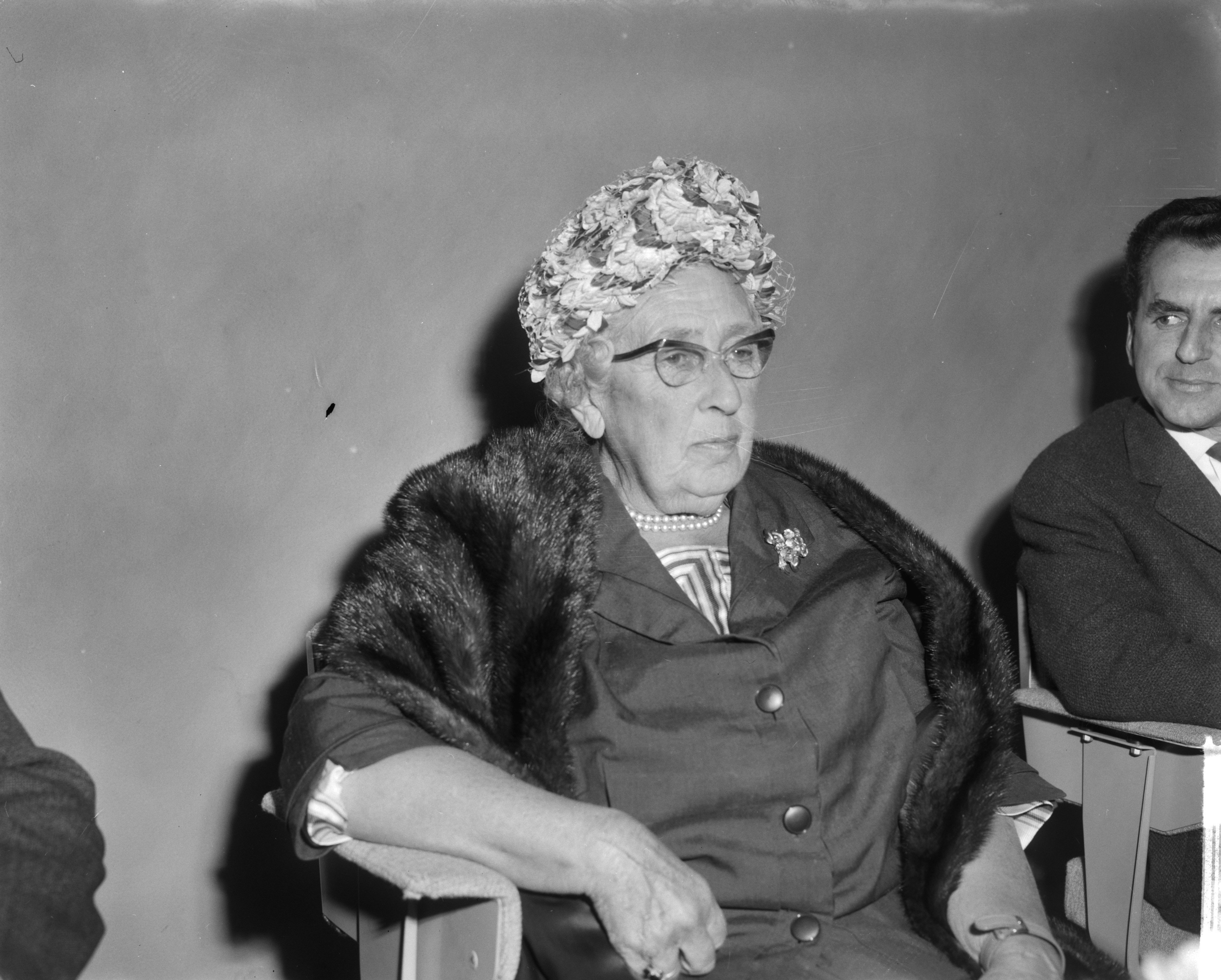 Photograph of the English novelist Agatha Christie (1890–1976), taken at Schiphol Airport, Amsterdam